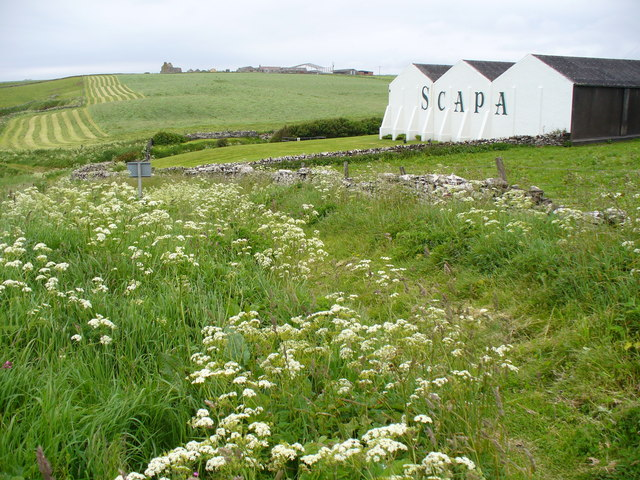 Clifftop Path at Scapa Distillery